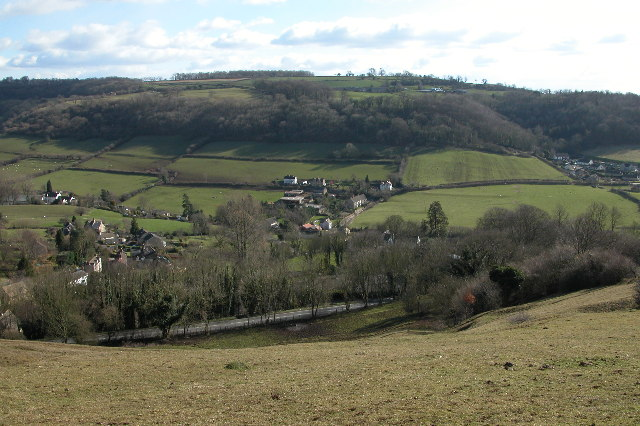 Coombe. The village of Coombe viewed from Coombe Hill